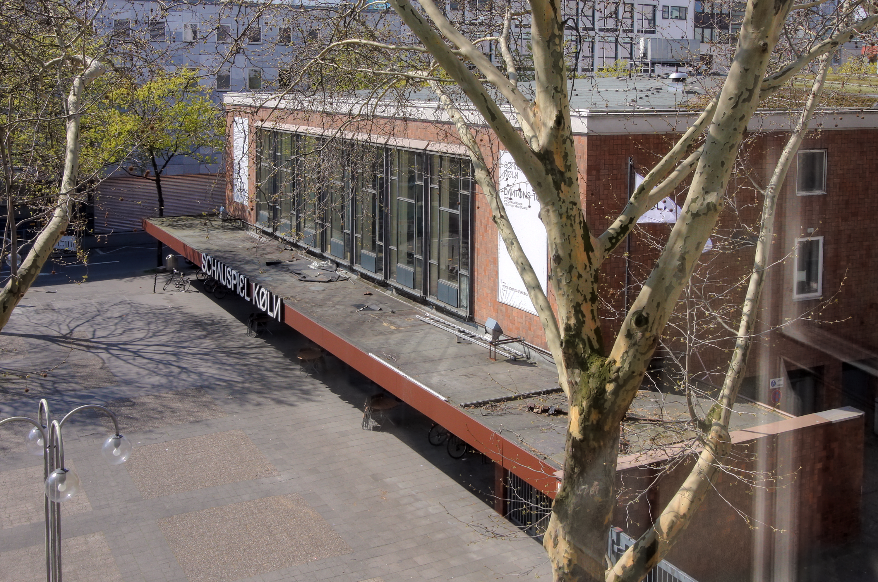 Cologne Opera house and theatre („Bühnen Köln“), view from the opera house at the theatre